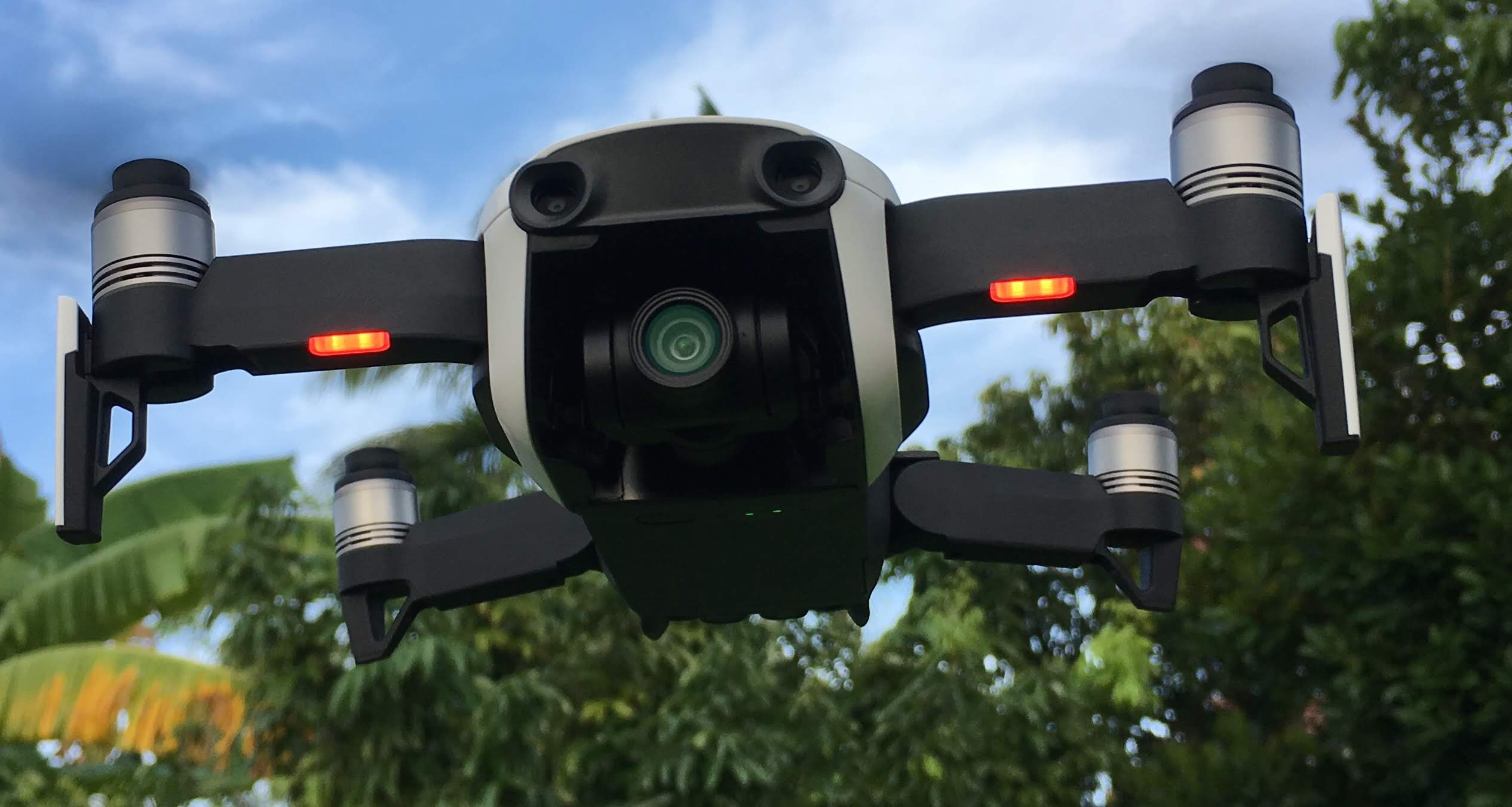 Picture of a DJI Mavic Air flying in the air.